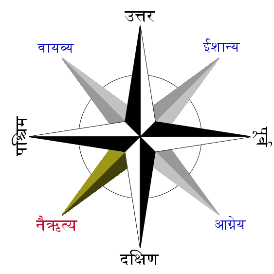 Southwest